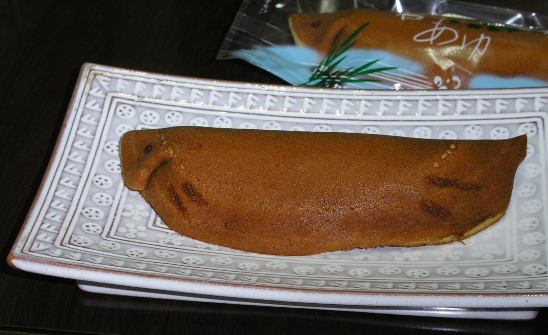 Japanese dolce called AYU